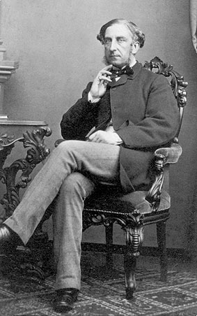 Cornelis Hartsen. Minister of Foreign Affairs of the Netherlands (1888-1891)